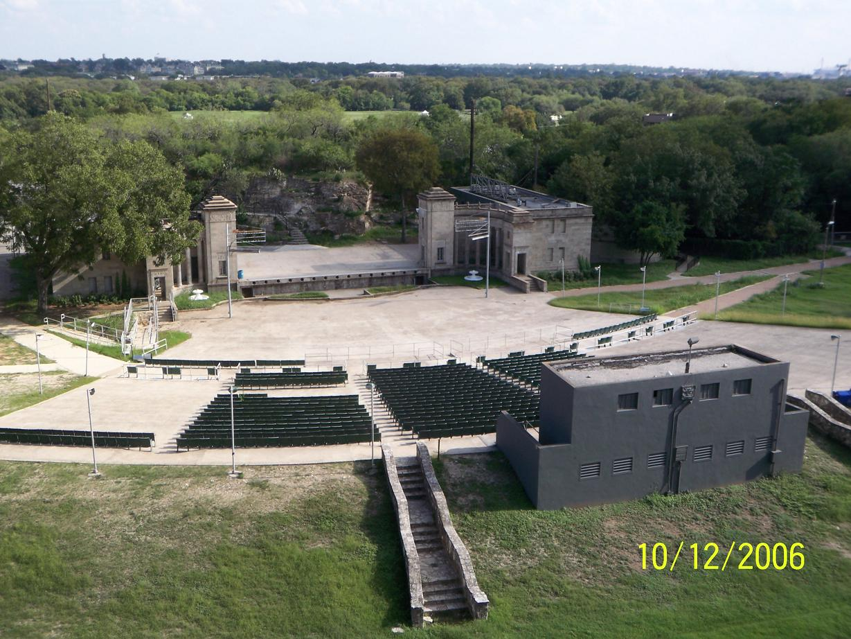 Sunken Garden Amphitheatre in the Japanese Tea Garden in San Antonio, Texas.